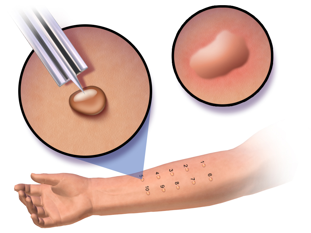 An illustration depicting the skin prick test.